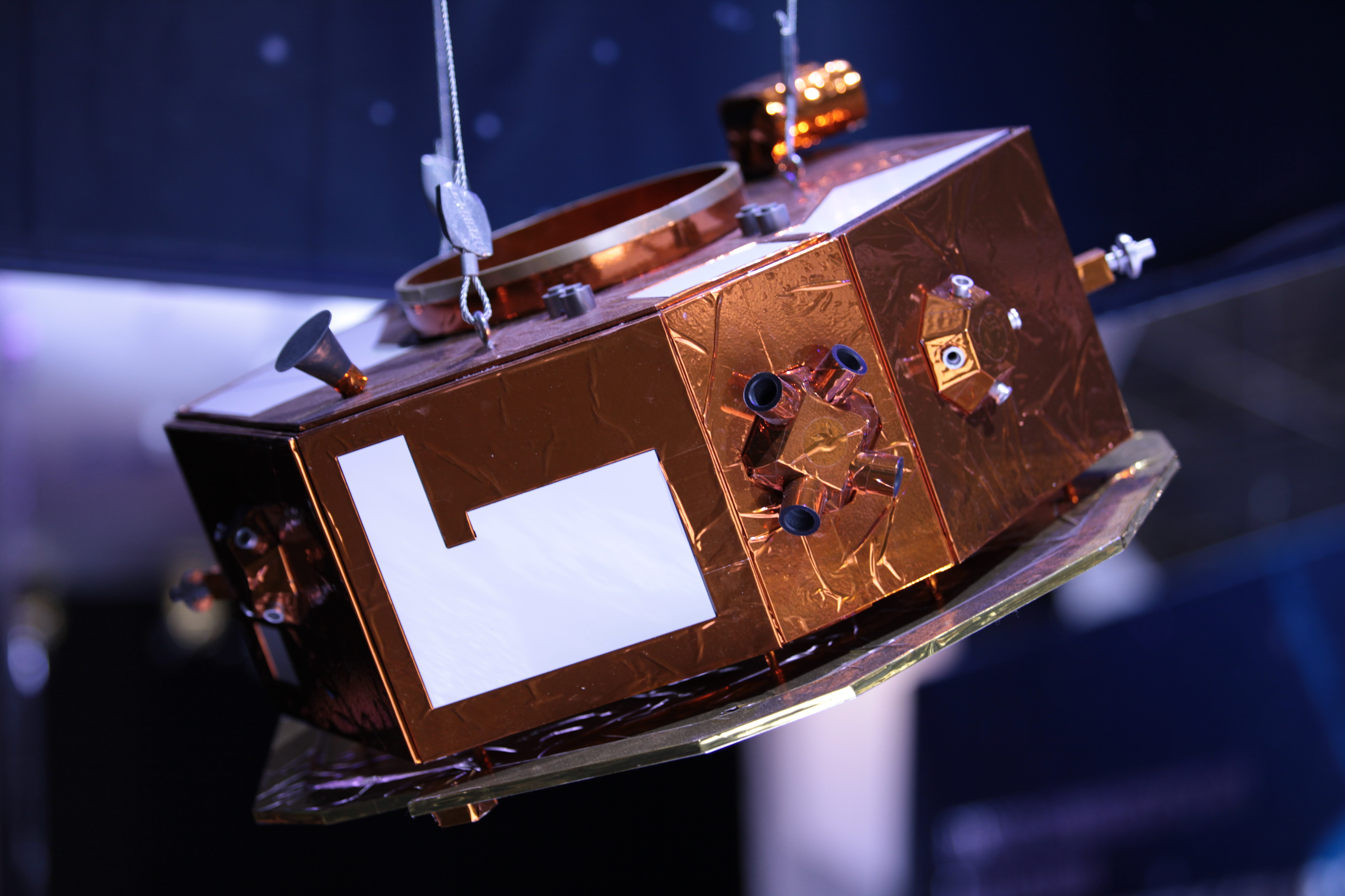 The LISA Pathfinder mission LISA Pathfinder mission is a technology testing mission for the LISA mission.